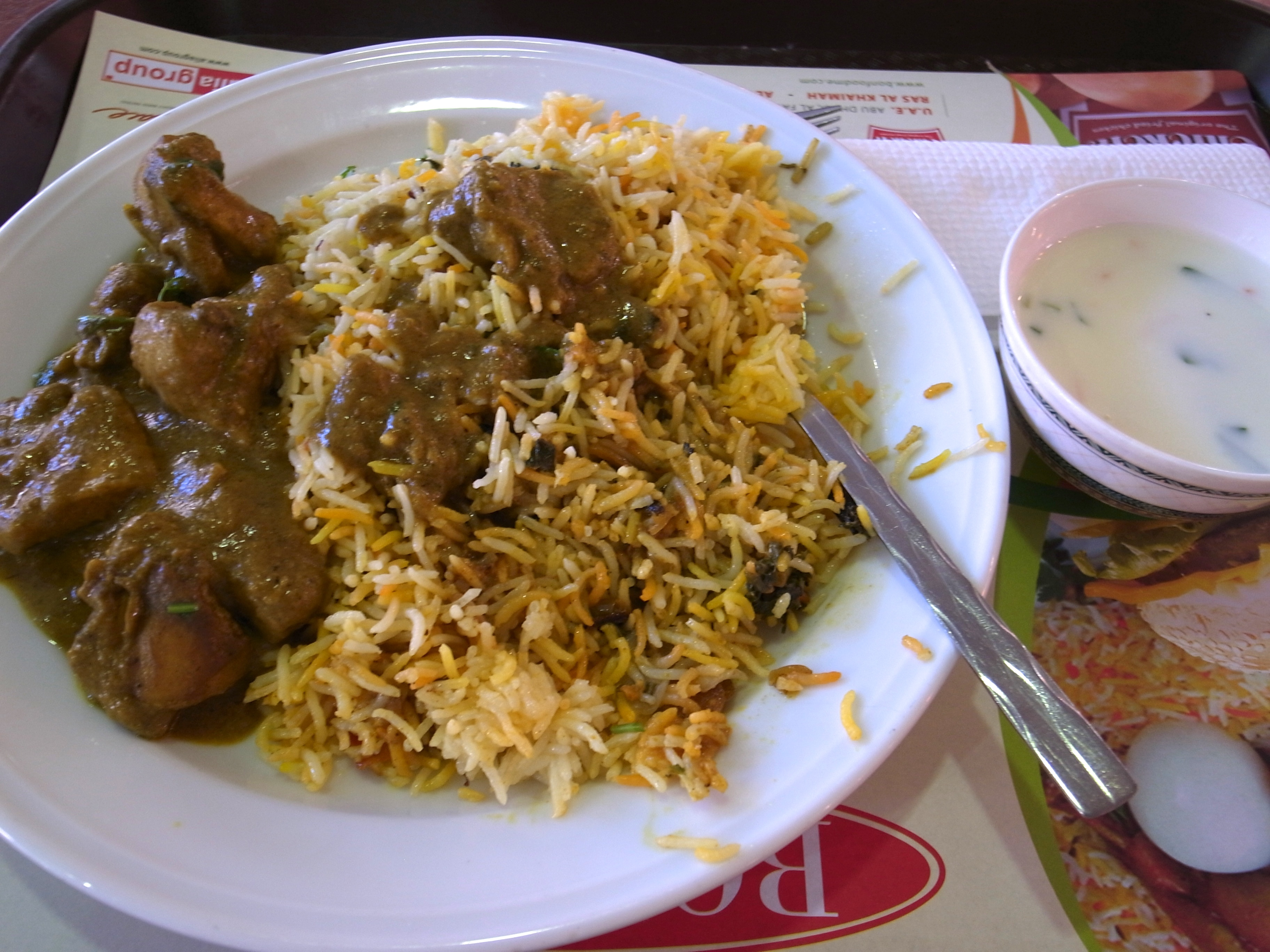 At Madinat Zayed Shopping Center, Abu Dhabi, UAE.